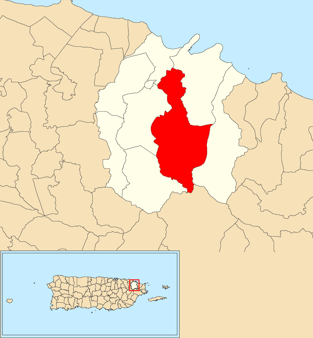 Jiménez, Río Grande, Puerto Rico locator map